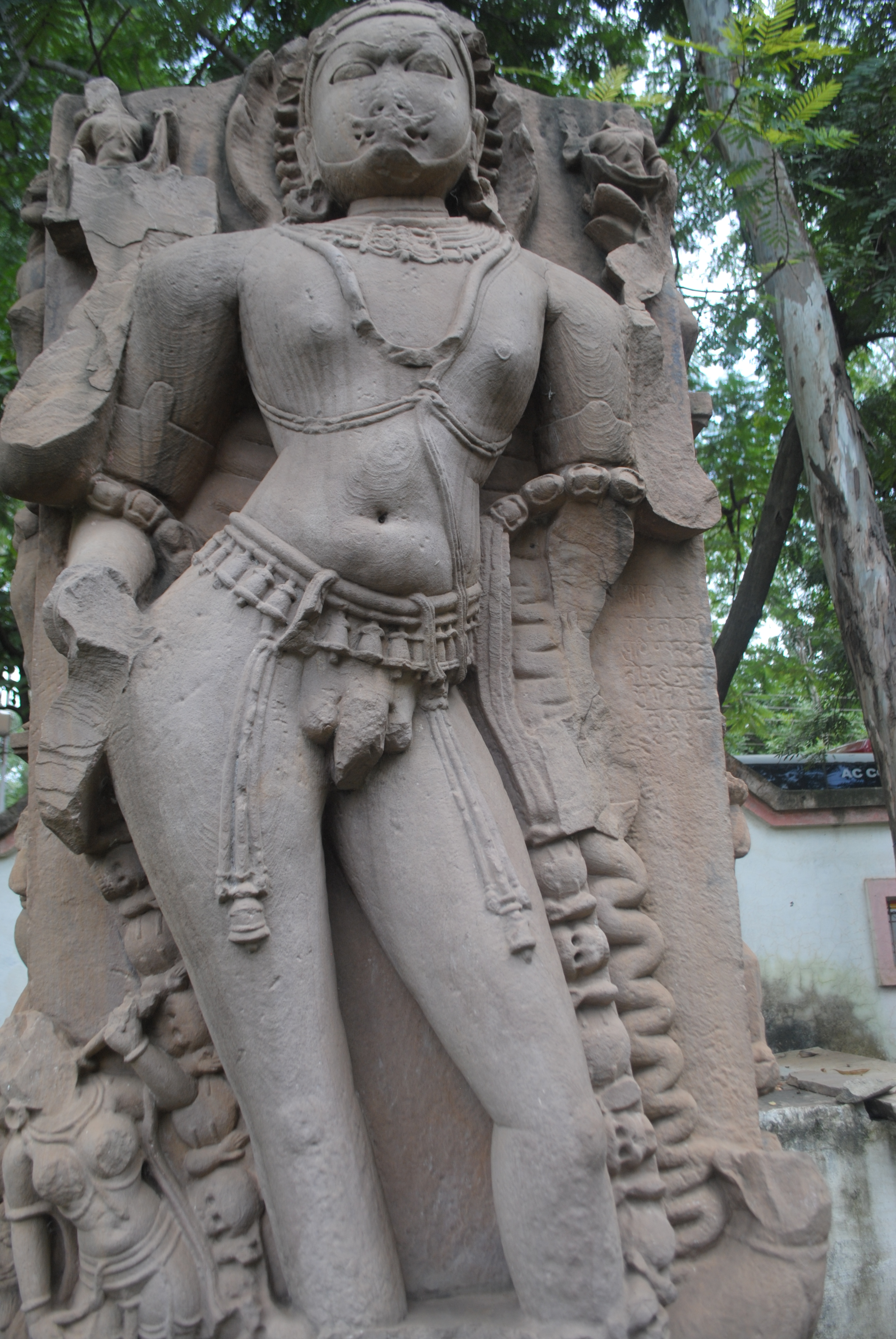 This image is of a Bhairavnath sculpture from Gyaraspur in Madhya Pradesh, India. It is dated to 9-10th c.